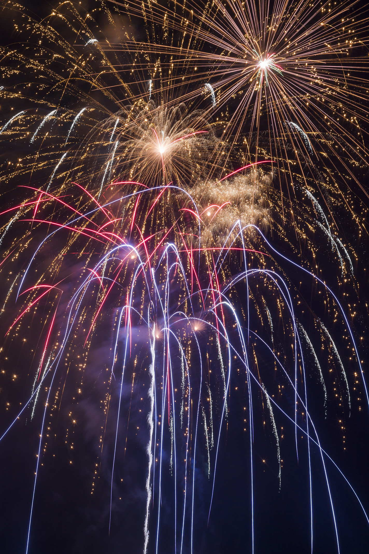 Fireworks at Bill Reid Millennium Amphitheater